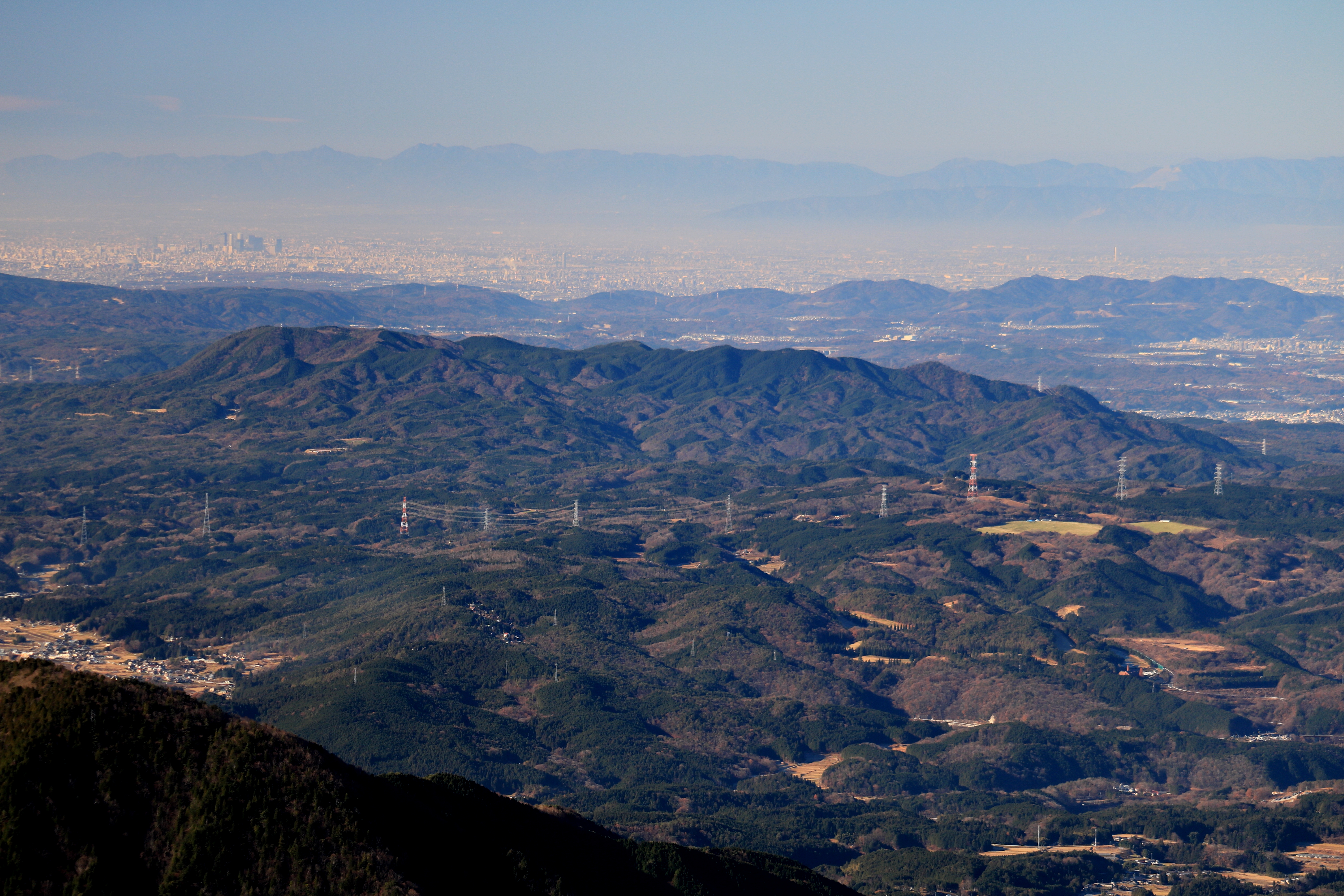 Mount Byobu seen from Mount Ena in Gifu prefecture, Japan.